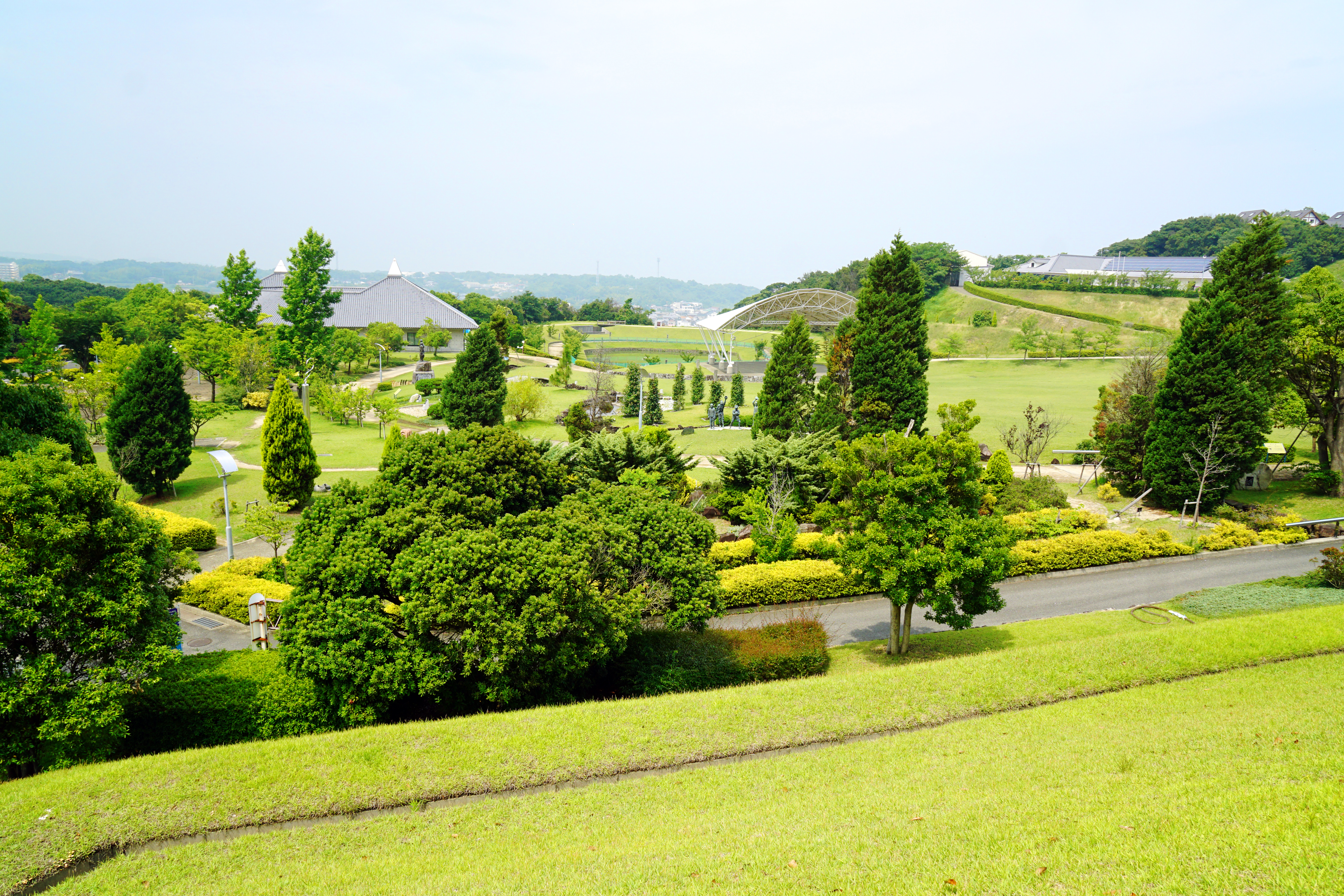 Wellness Park Goshiki is Takadaya Kahei Memorial Park in Sumoto, Hyogo prefecture, Japan.